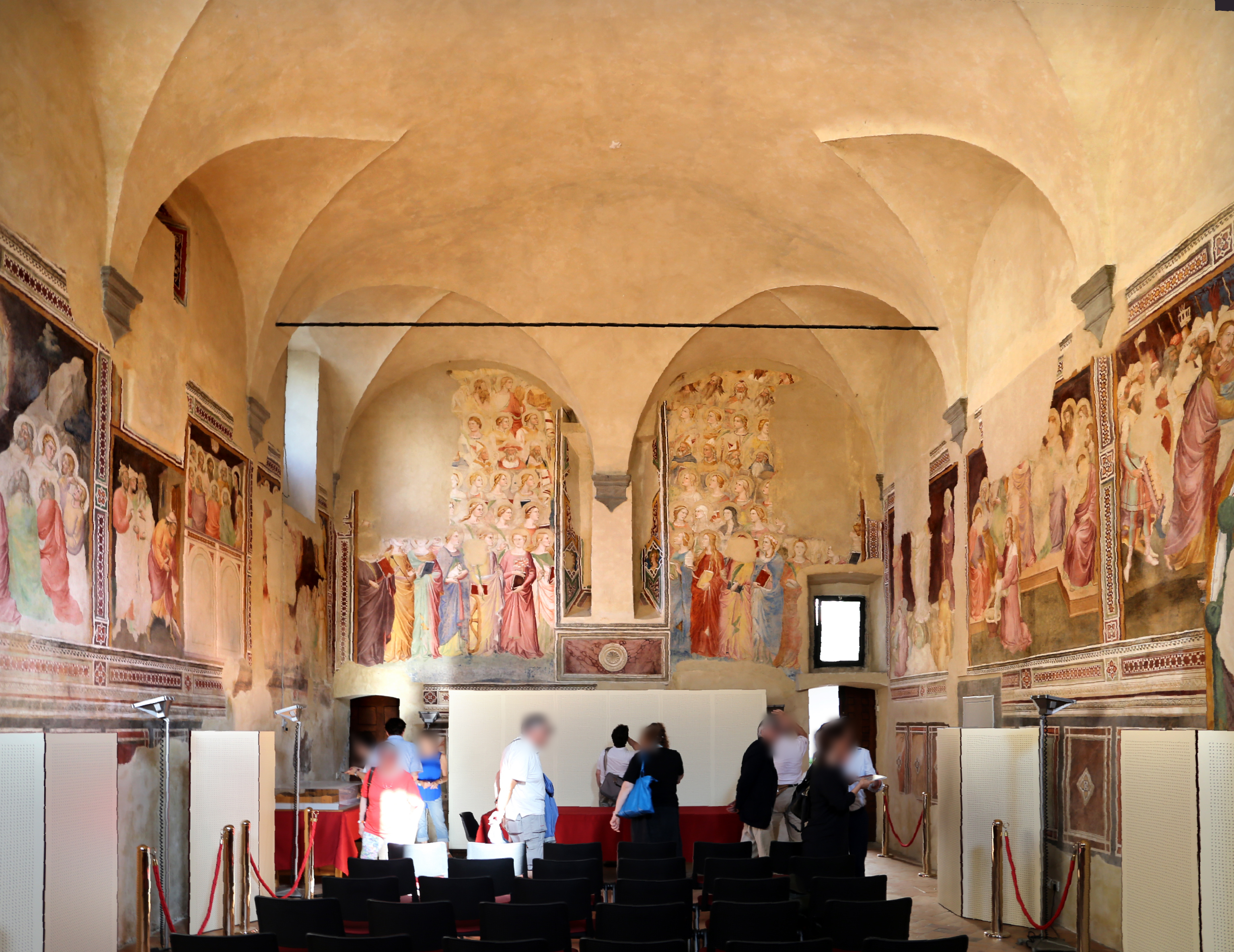 Santa Brigida al Paradiso, Florence